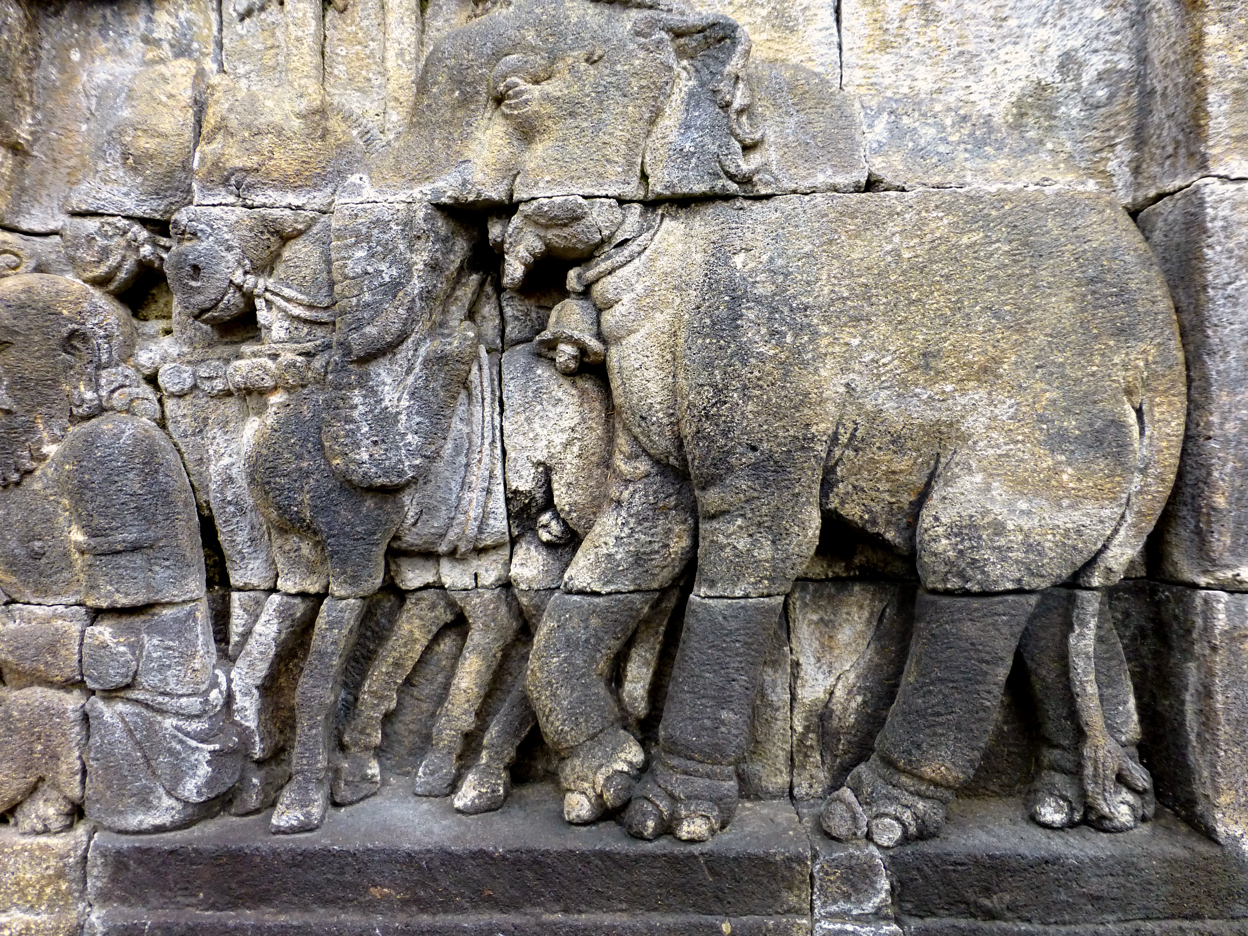 019 S, Musicians and Dancing Girls in the Kinnaras Court (detail 5) at Borobudur Photograph of a Divyavadana relief at Borobudur in Java, Indonesia taken by Anandajoti.